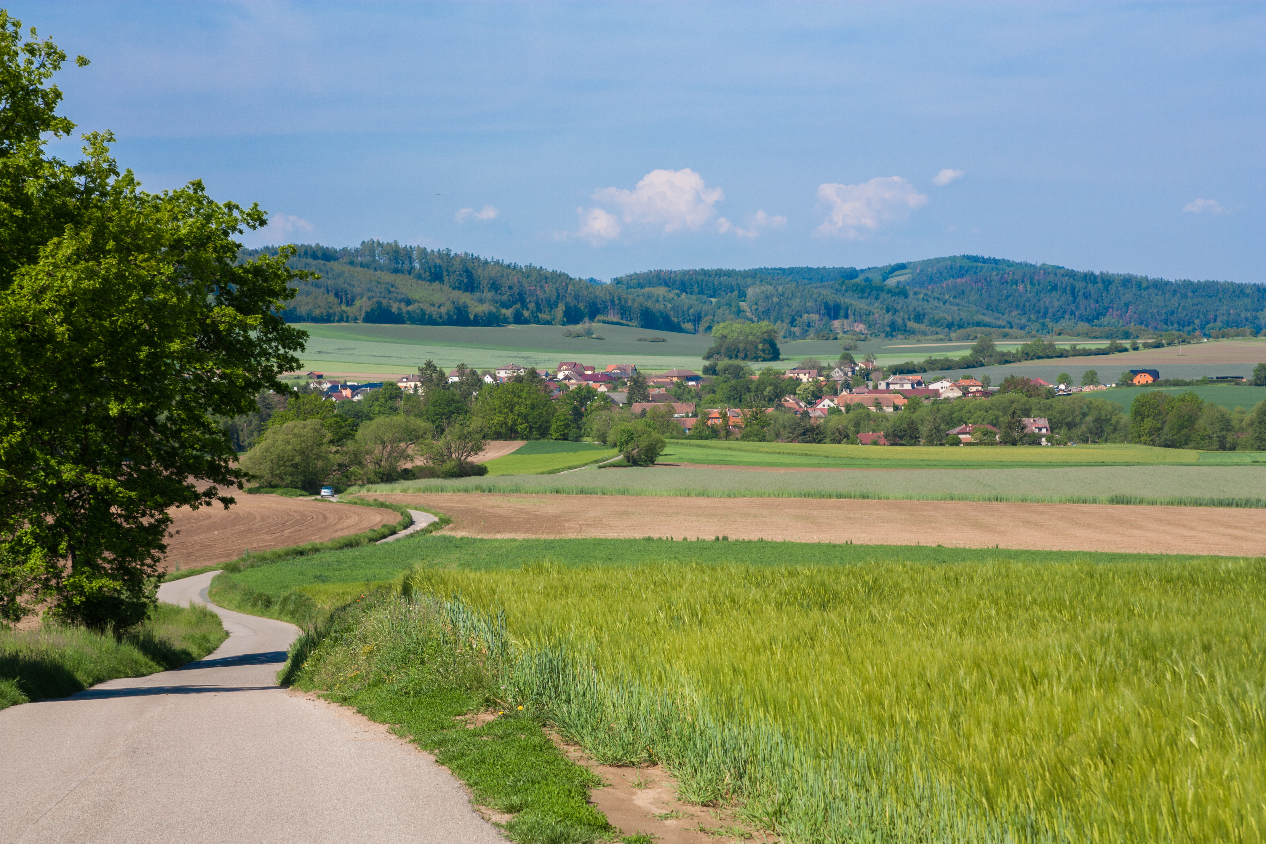 View at village Václavice, Benešov District, Central Bohemian Region, Czechia